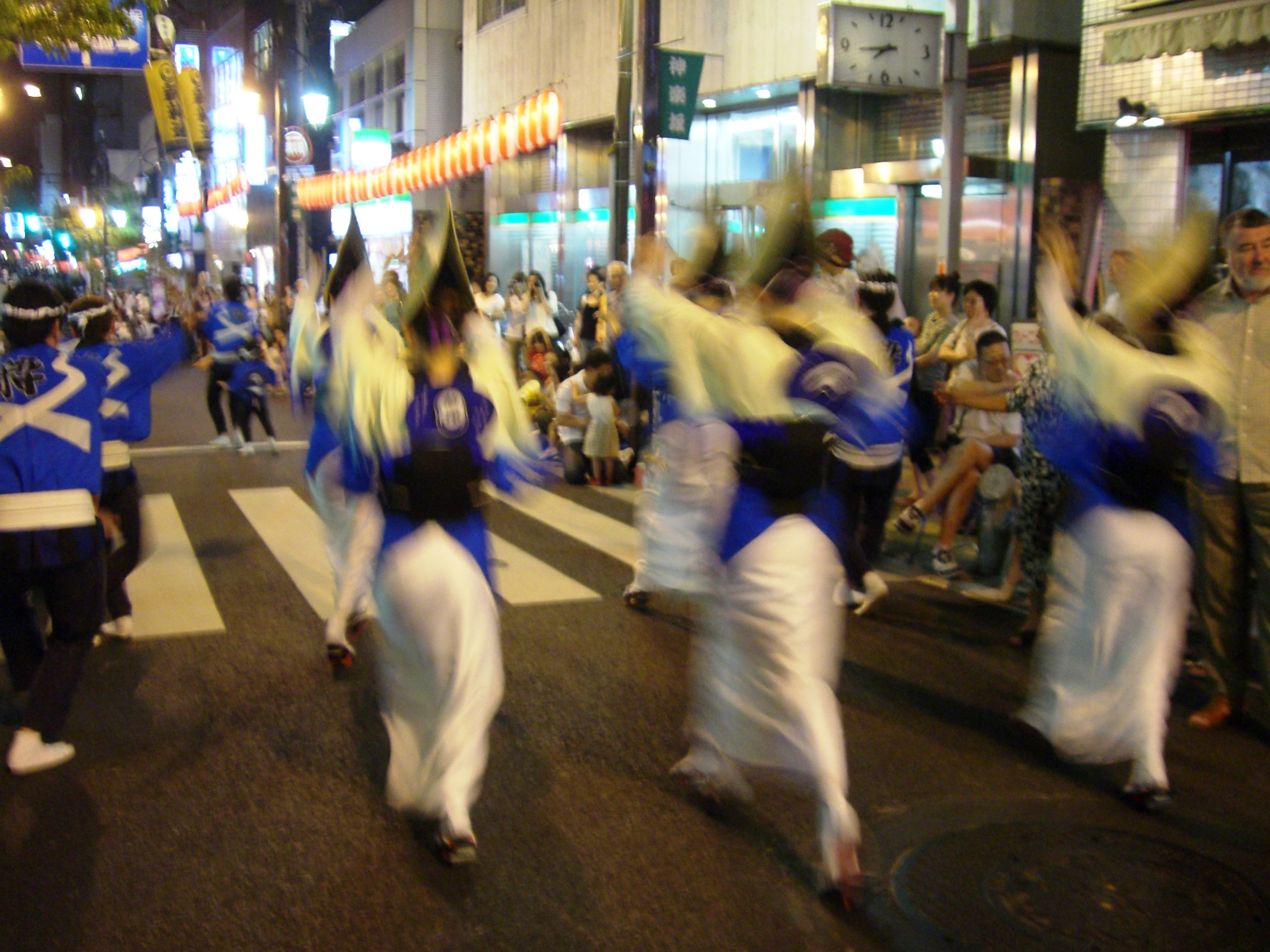 Woman's Awa odori at Kagurazaka.